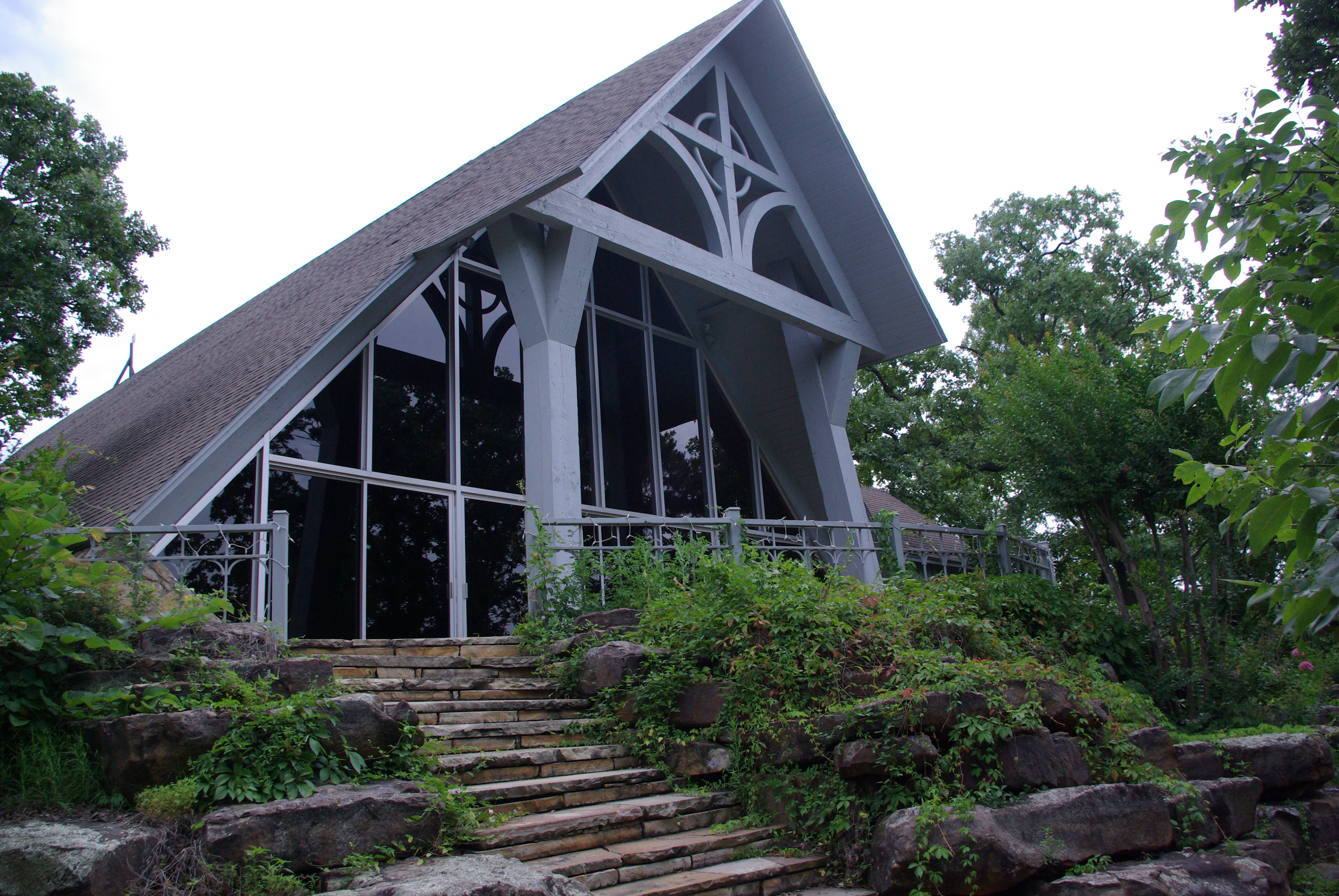 The Kirkland Chapel at Camp Loughridge